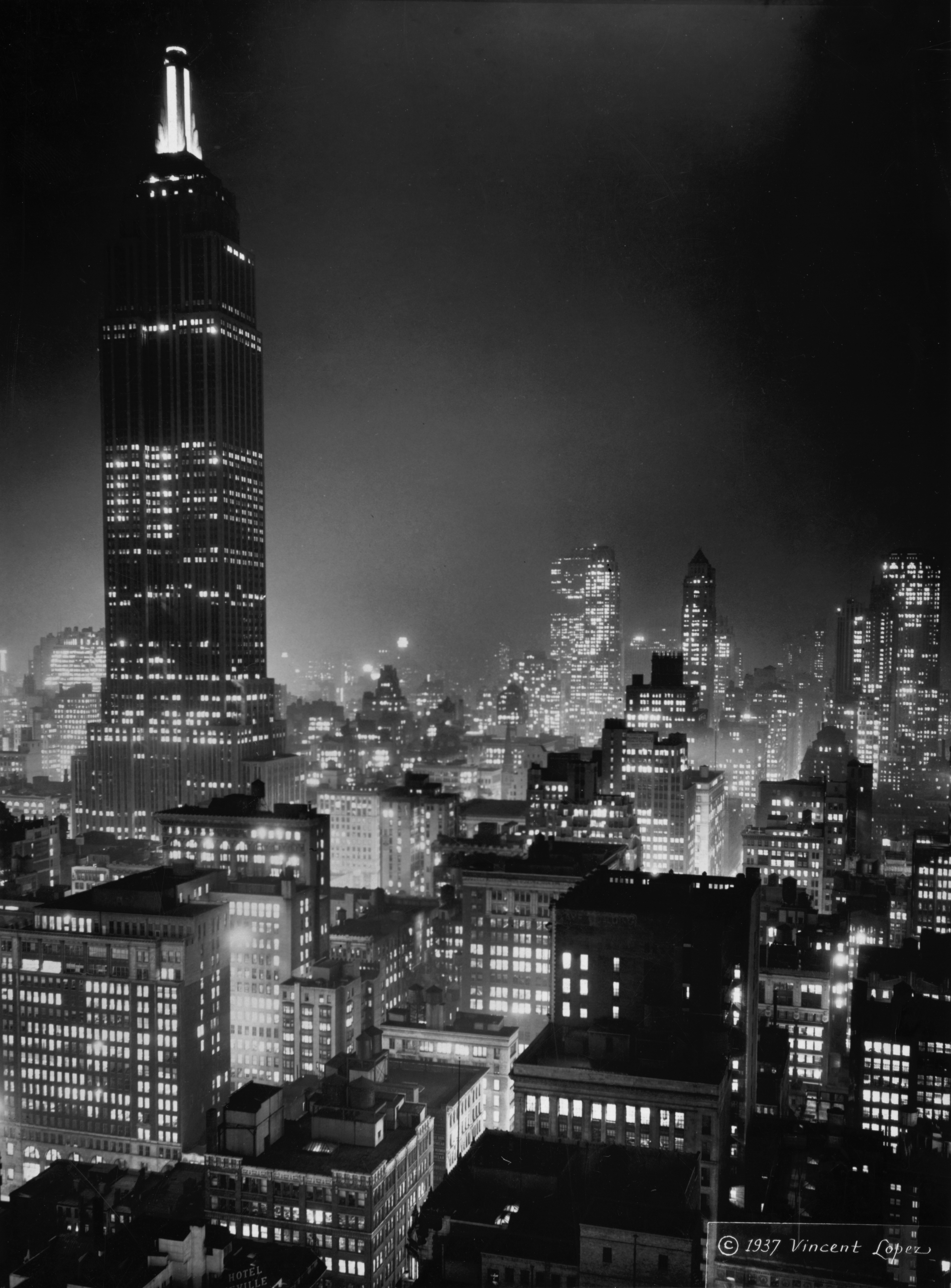 Photo of the New York midtown skyline at night, c. 1937. The Empire State Building dominates the left-hand side of the frame; the unlit floors hint at the building's financial difficulties during this period. [1]